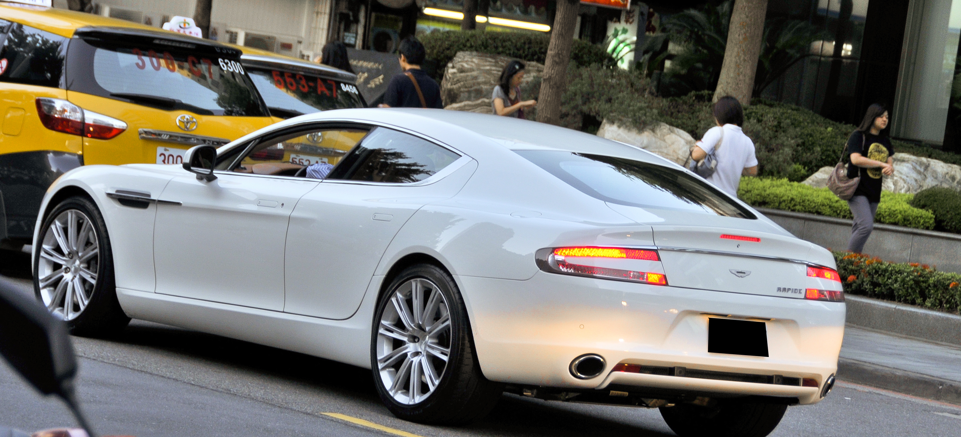 2010-2013 Aston Martin Rapide in Taipei, Taiwan.Designed in the United Kingdom , Assembled in Austria